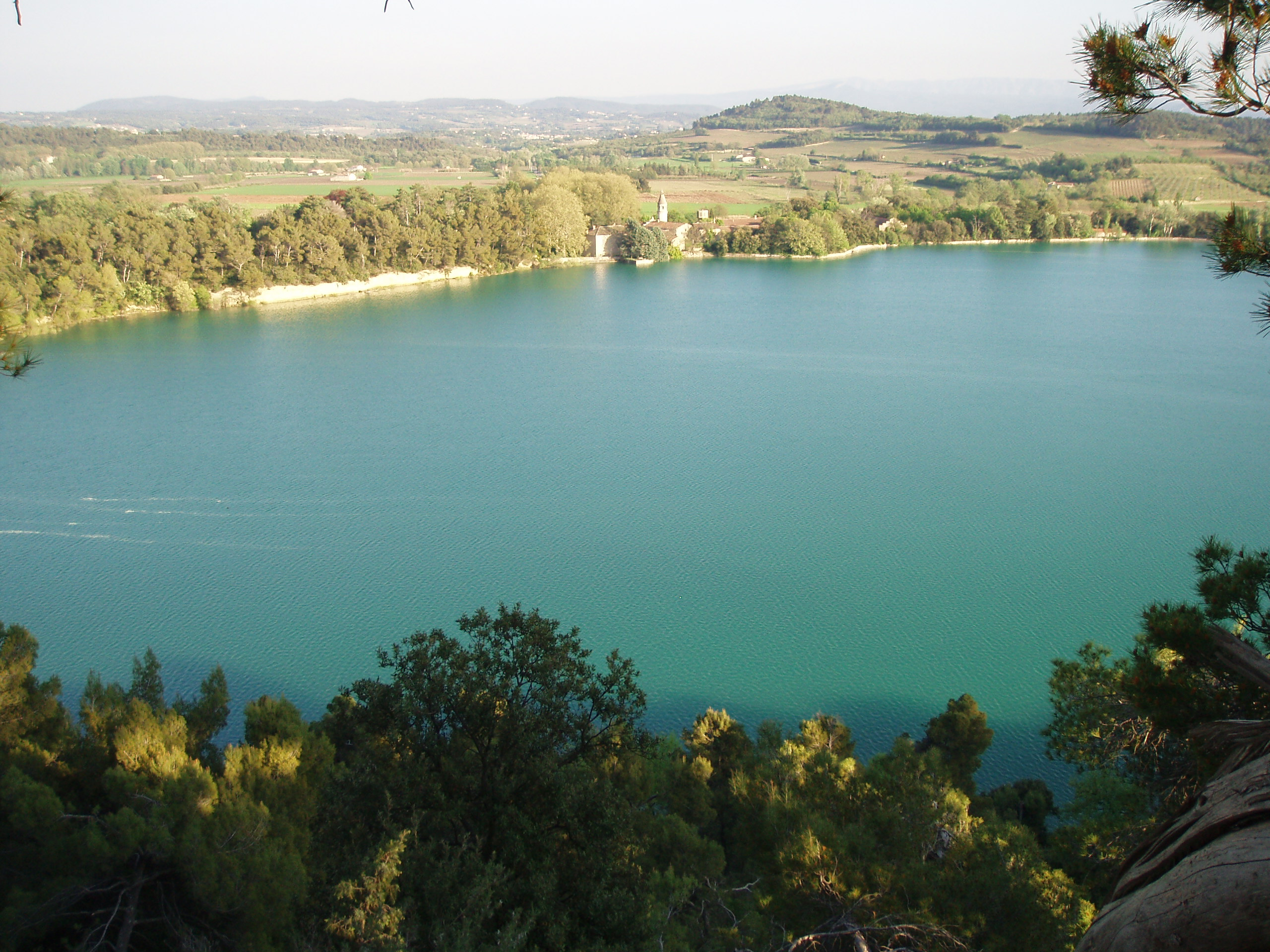 Étang de la Bonde, Vaucluse, France, seen from the north.